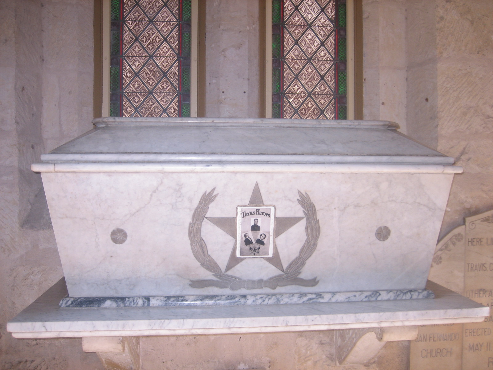 Davy Crockett, William Barret Travis and Jim Bowie Tomb, taken in Aug 2008